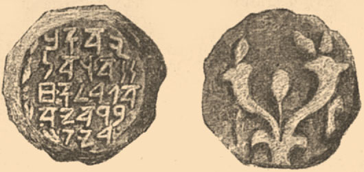 Illustration from Brockhaus and Efron Jewish Encyclopedia (1906—1913)